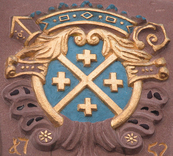 Wappen Springiersbacher Hof (Ediger)